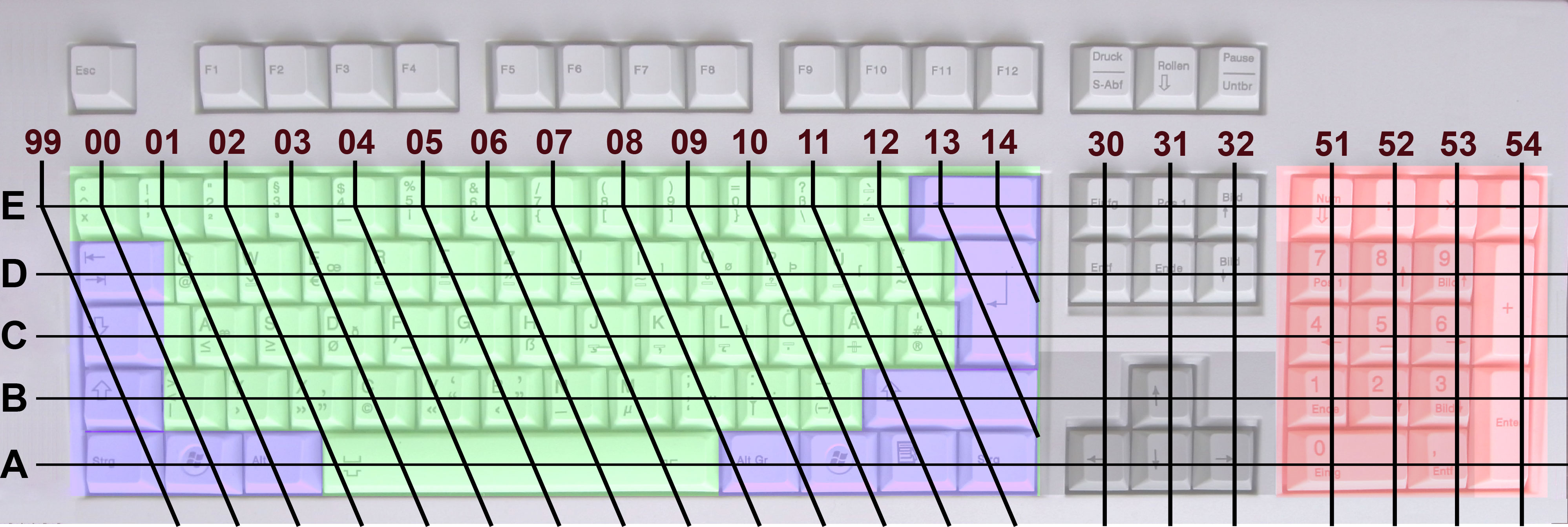 Showing the sections, zones, and reference grid of a keyboard according to ISO/IEC 9995-1:2009